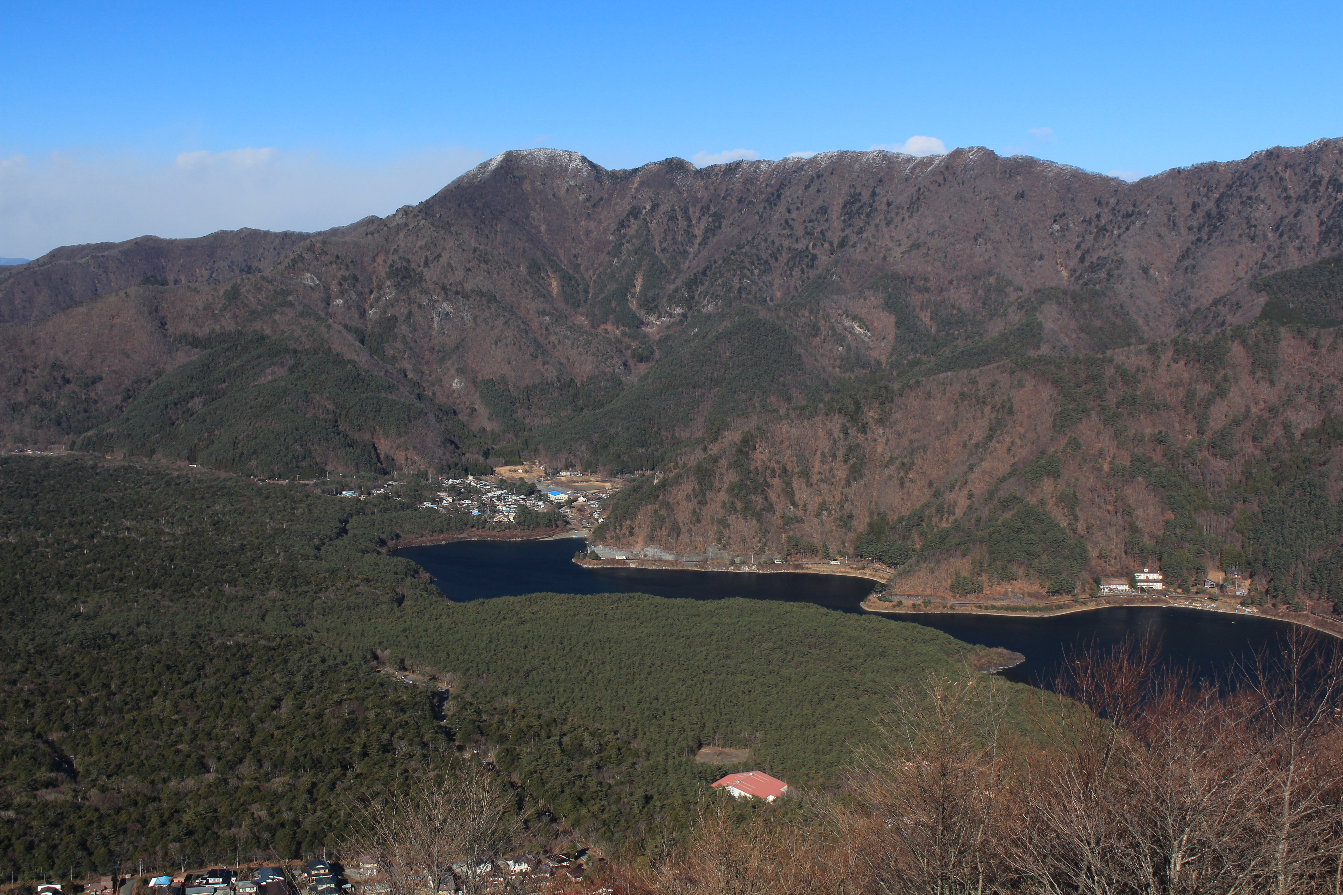 Mount O (Misaka Mountains) ,Aokigahara and Lake Sai seen from Sankodai on Mount Ashiwada in Yamanashi prefecture, Japan.